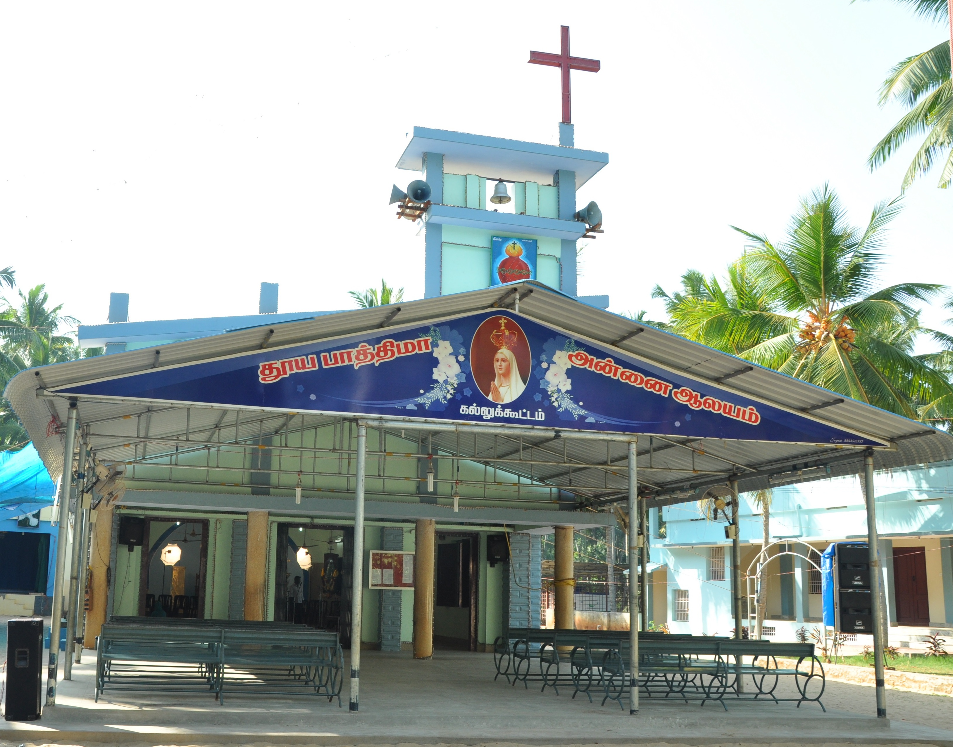 Kallukoottam Saint Fatima Church, Kallukoottam